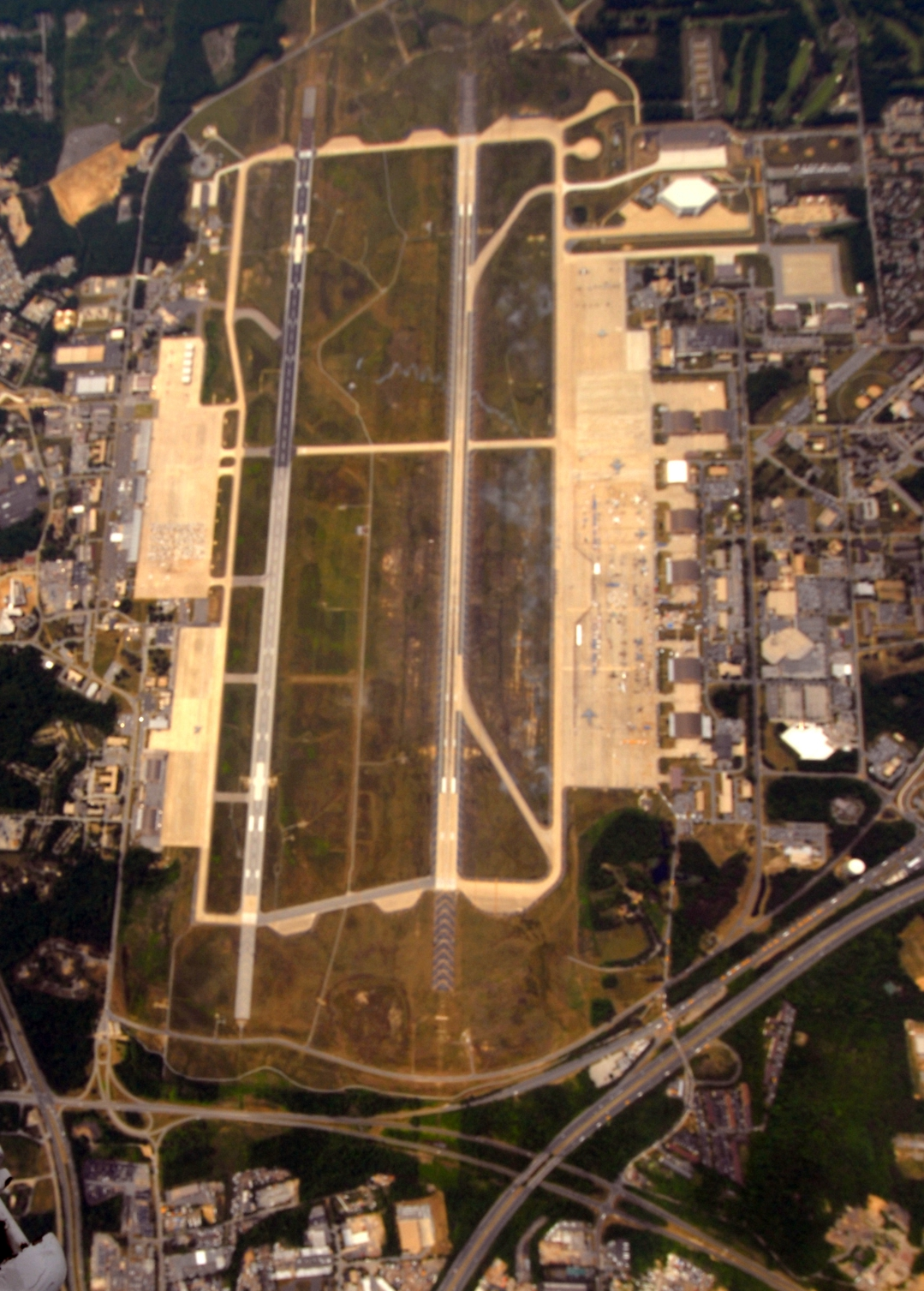 Aerial view or the Joint Base Andrews Naval Air Facility, Washington, D.C (USA) on 16 May 2010. View is from North (South is at top of picture). Joint Service Open House 2010 was taking place; various display aircraft are visible on right.